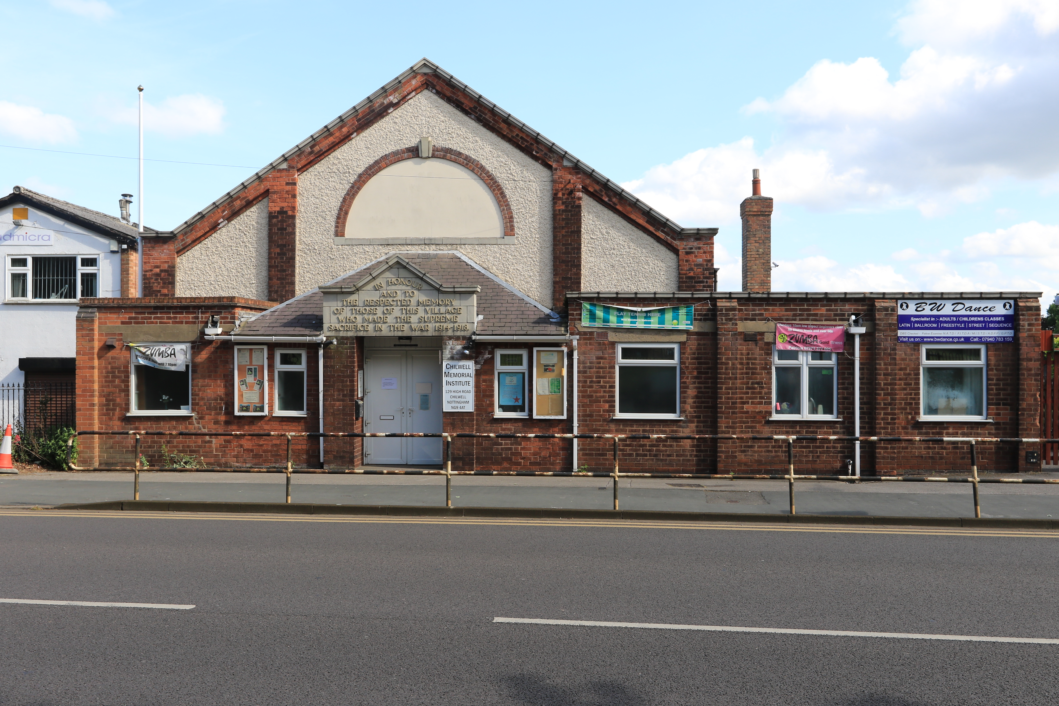 Chilwell Memorial Institute by William Herbert Higginbottom 1924